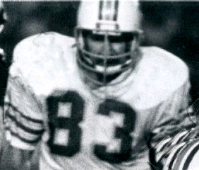 Miami Dolphins defensive end Vern Den Herder pictured in a defensive play against the Oakland Raiders during an October 8, 1979 game at Oakland–Alameda County Coliseum.